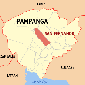 Map of Pampanga showing the location of San Fernando